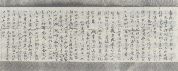 essay of Yun Ung-nyeol